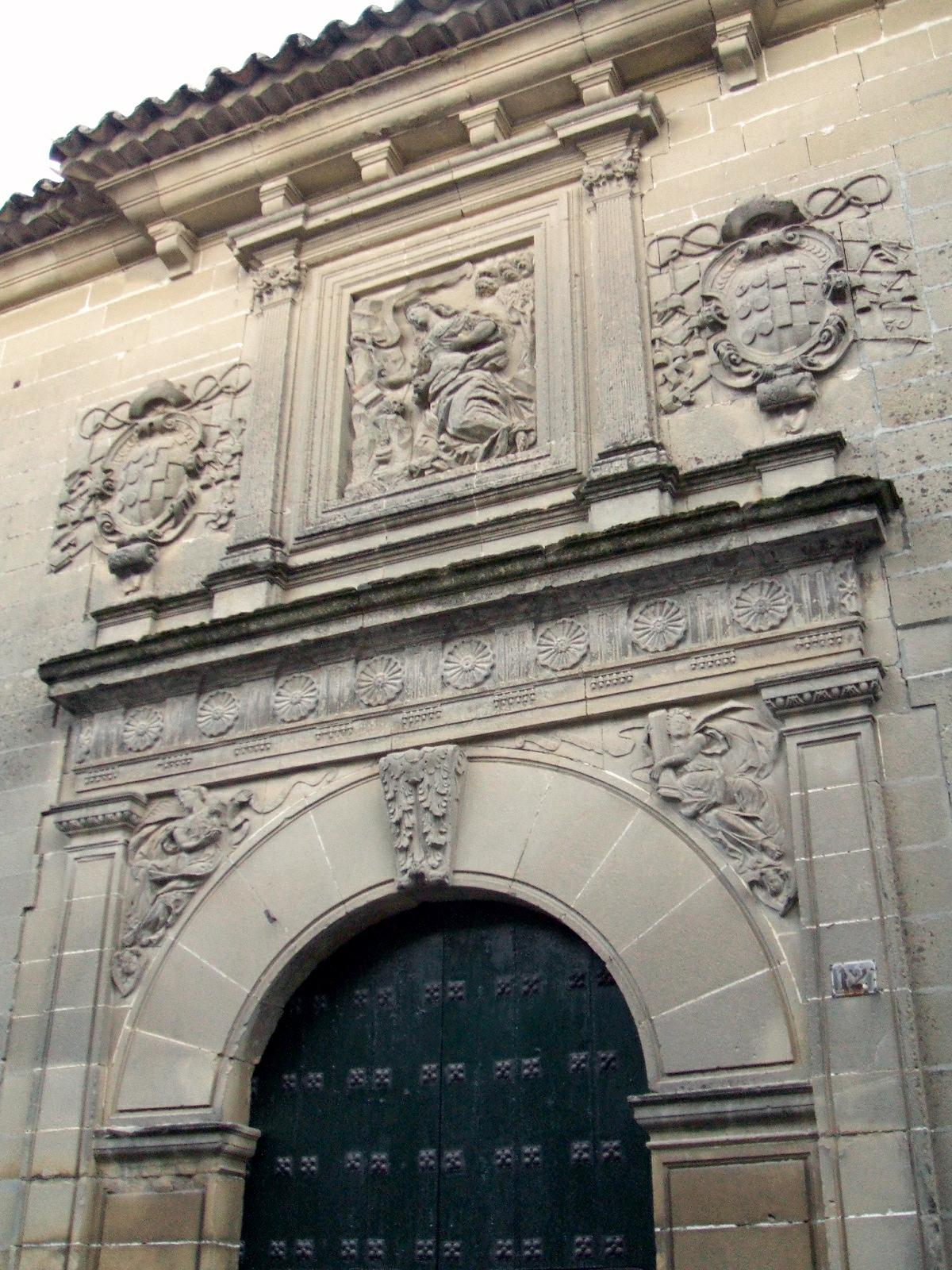 Portada tardorrenacentista (manierismo clasicista), de principios del s-XVII, de la iglesia del Convento de Santa María Magdalena (MM Agustinas) de Baeza (Jaén, Andalucía, España)